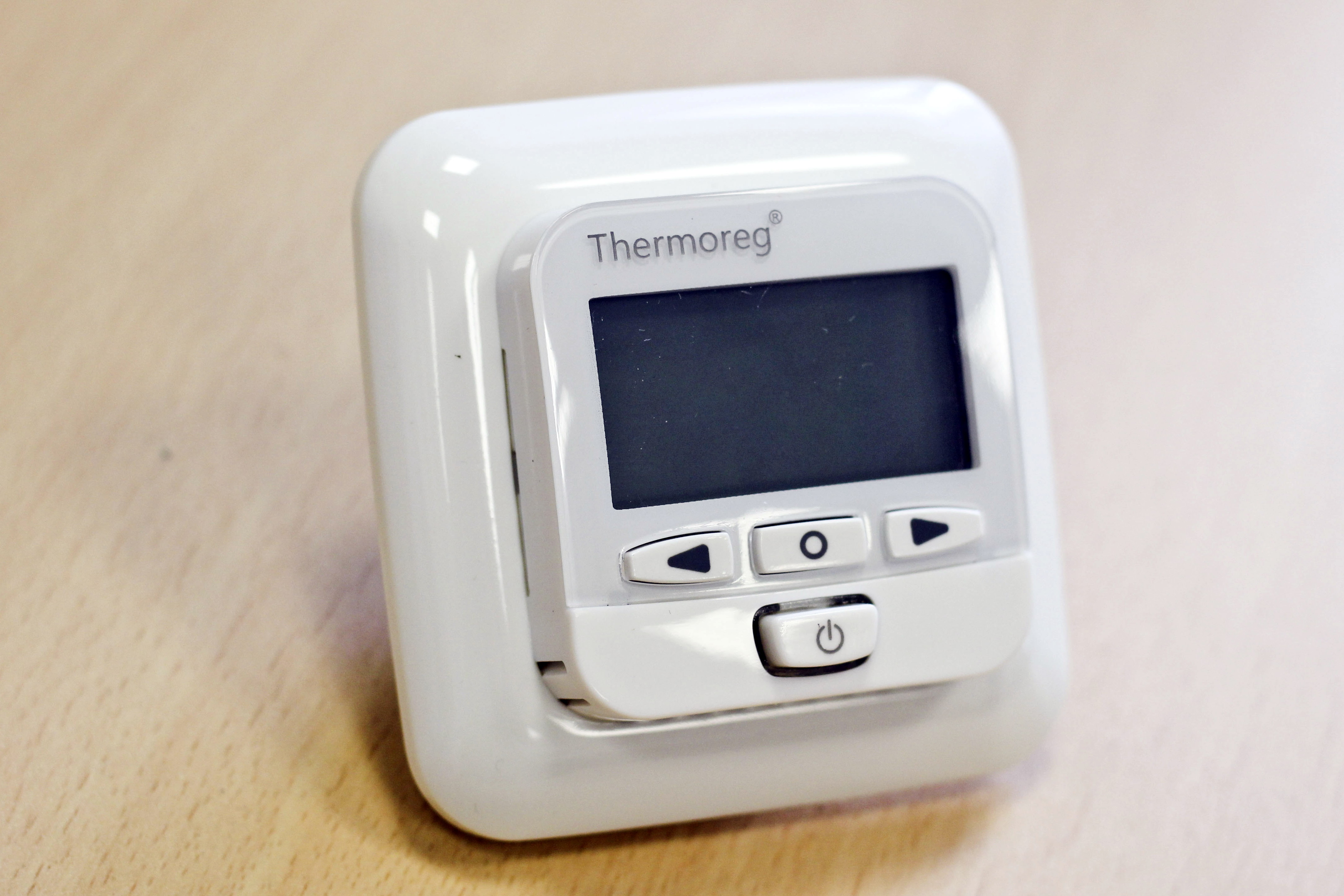 Programmable Thermoreg TI 950